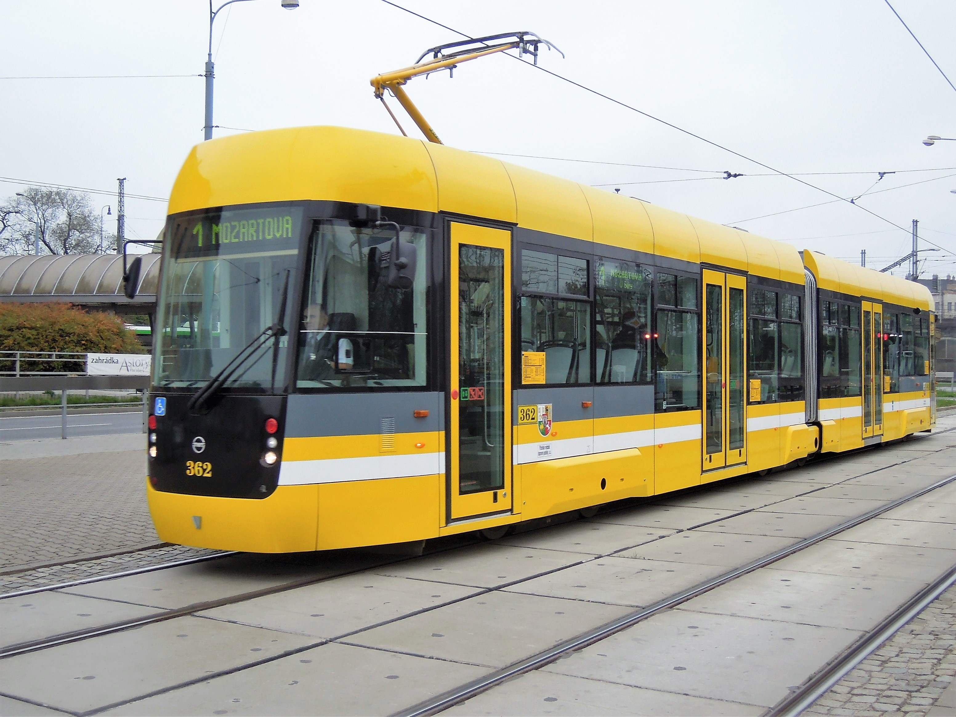 VarioLF2/2 IN tram in Plzeň, Plzeň Region, Czech Republic